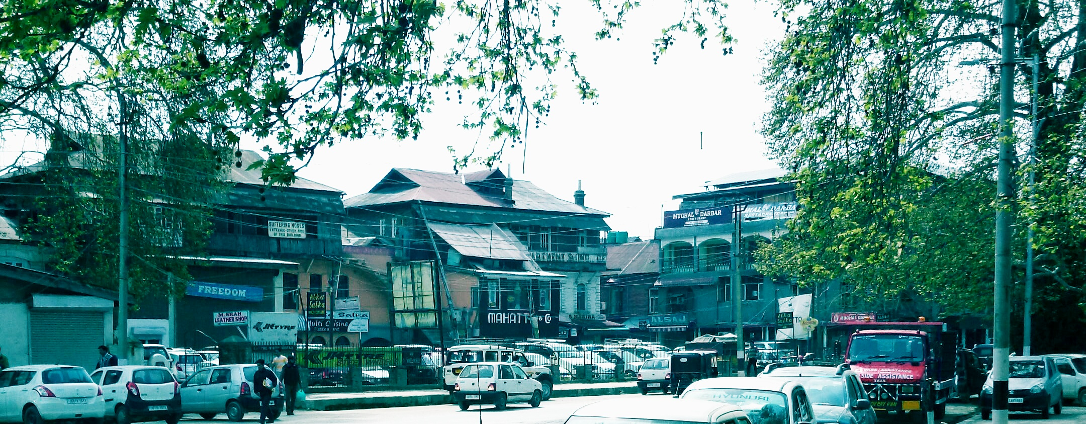 Shops at Residency Road.